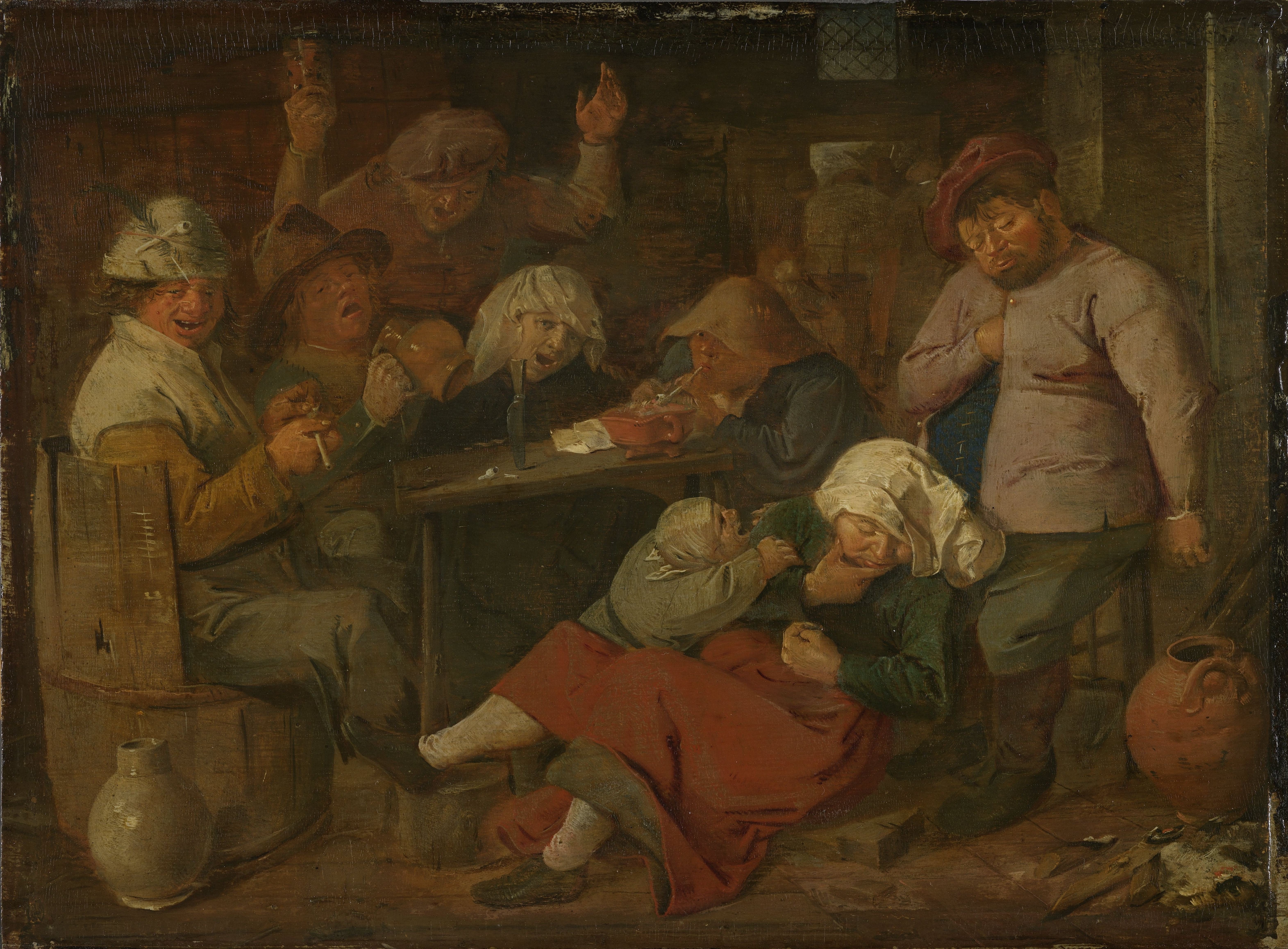 Interior of an inn with a group of drinking, smoking and singing peasants around a table. In front of the table a drunken peasant woman fell asleep. A crying child pulls her arm. To the left a peasant sitting on a barrel is making his pipe. To the right another peasant is lighting his pipe using a fire pot.